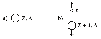 Decaimento beta (Z- número atômico e A- número de massa): a) estado inicial do núcleo antes do decaimento. b) Núcleo após a emissão do elétron.